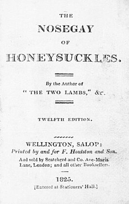 Nosegay of Honeysuckles by Lucy Lyttelton Cameron, first print, 1825, from